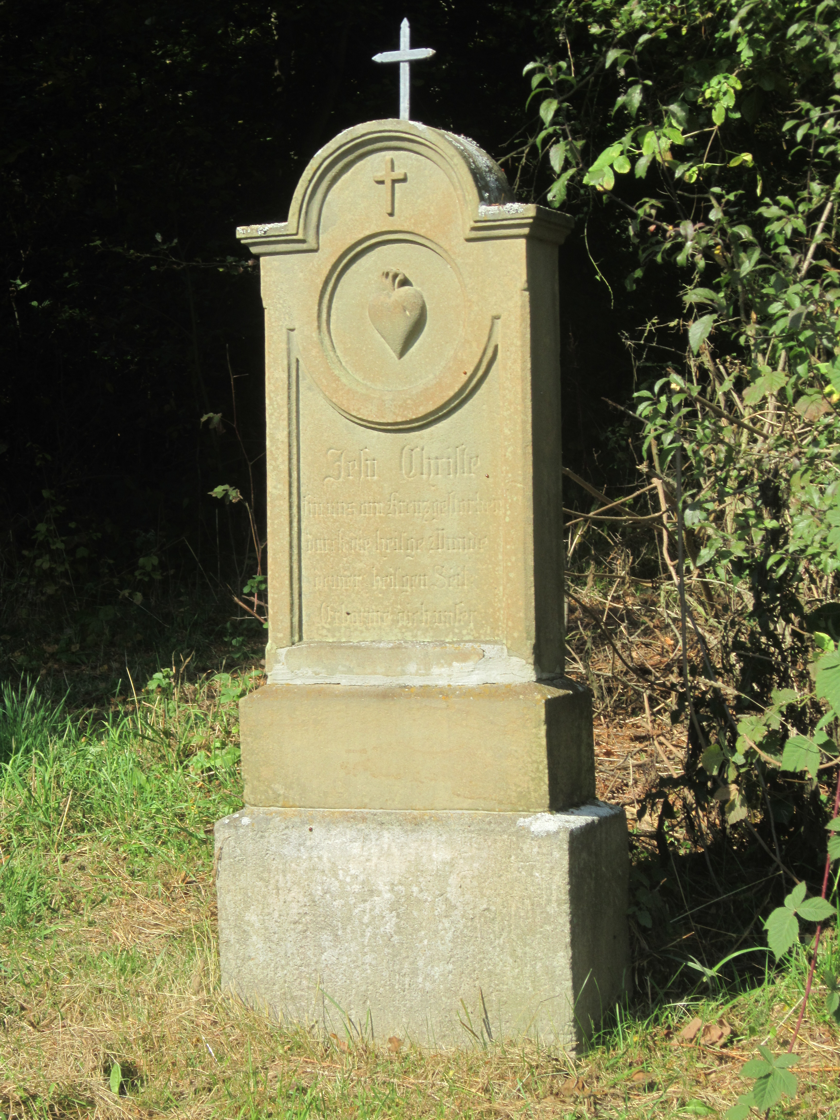 5th station of the Five Wounds in Zahlbach, a quarter of the German town of Burkardroth in Lower Franconia (Bavaria).